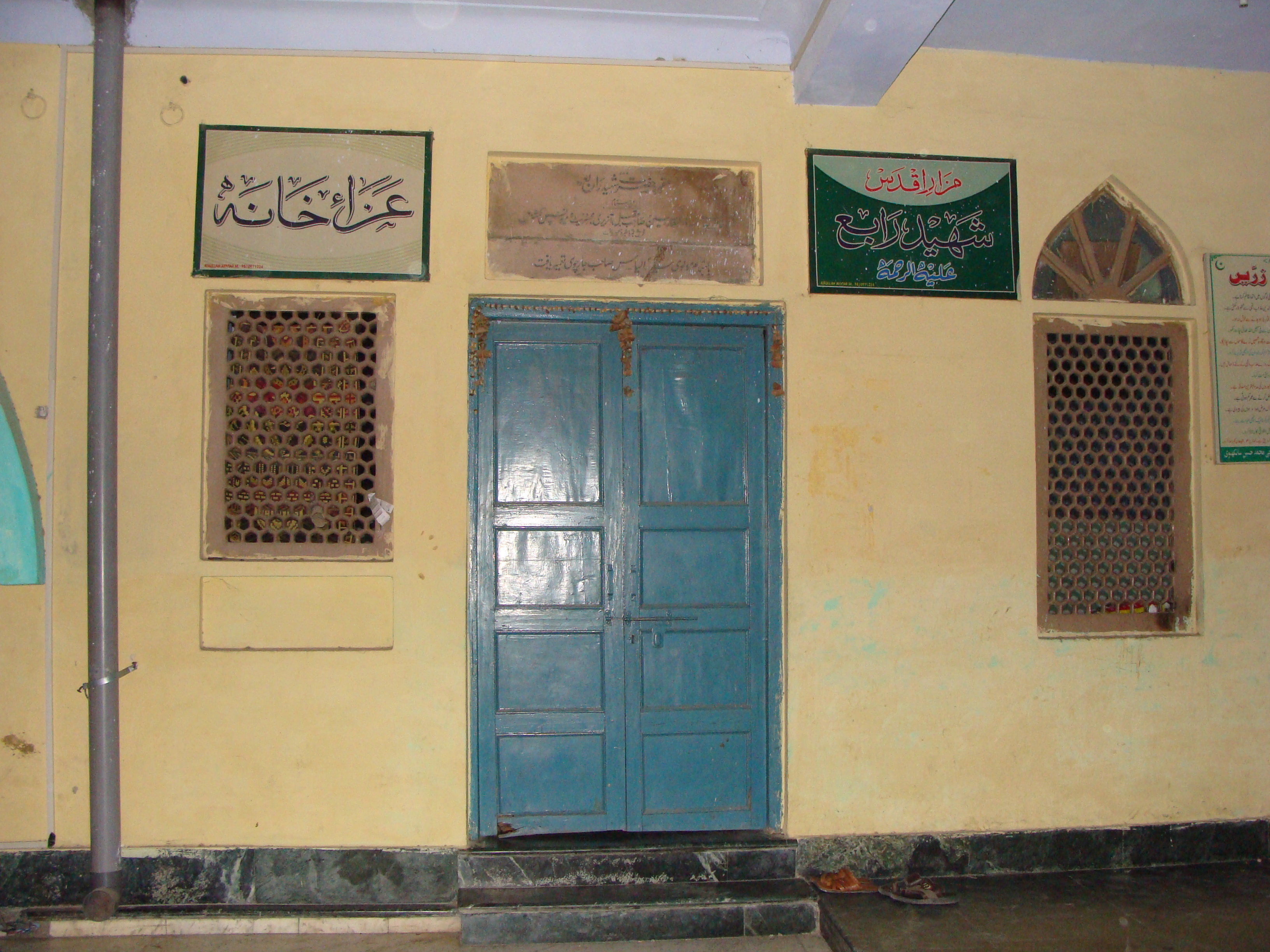 Burial Chamber of Mirza Muhammad Kamil Dehlavi at Panja Sharif, Kashmiri Gate, Delhi. Picture taken by Faiz Haider, using Sony Cybershot camera. Photo was taken on: Saturday, May 09, 2009.